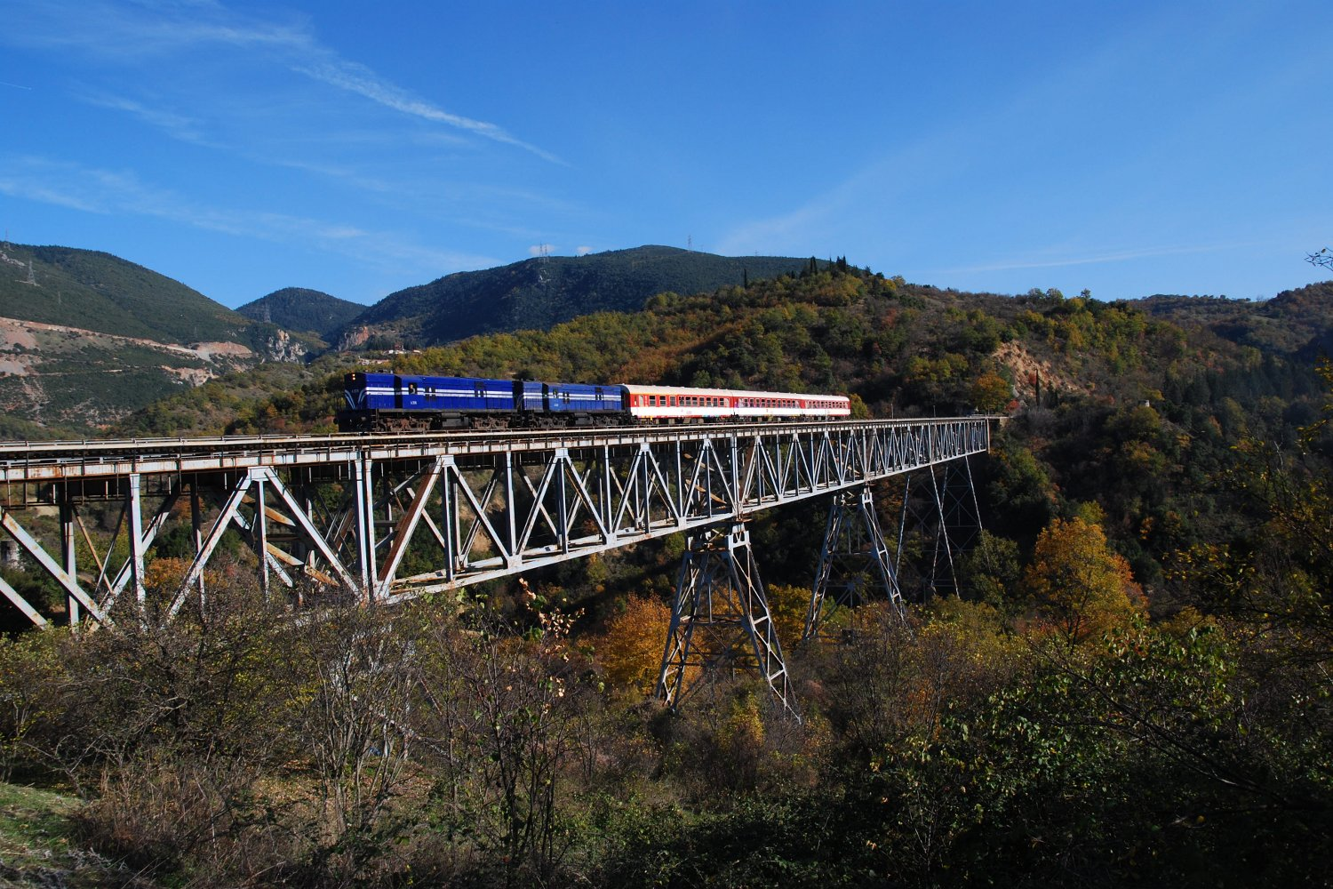 GREECE: Special train 7520 headed by ALCo DL-543 diesel locomotives A-326 and A-325 on Papadia bridge (Brallos bridge), at 200.162 km on the Tithorea-Leianokladi single track mainline section. The current bridge has a length of 341.9 m and was constructed in 1949 by the US Army Corps of Engineers and Atkinson-Drake-Park to replace an older bridge on the same location which was demolished by the withdrawing German army in 1944.